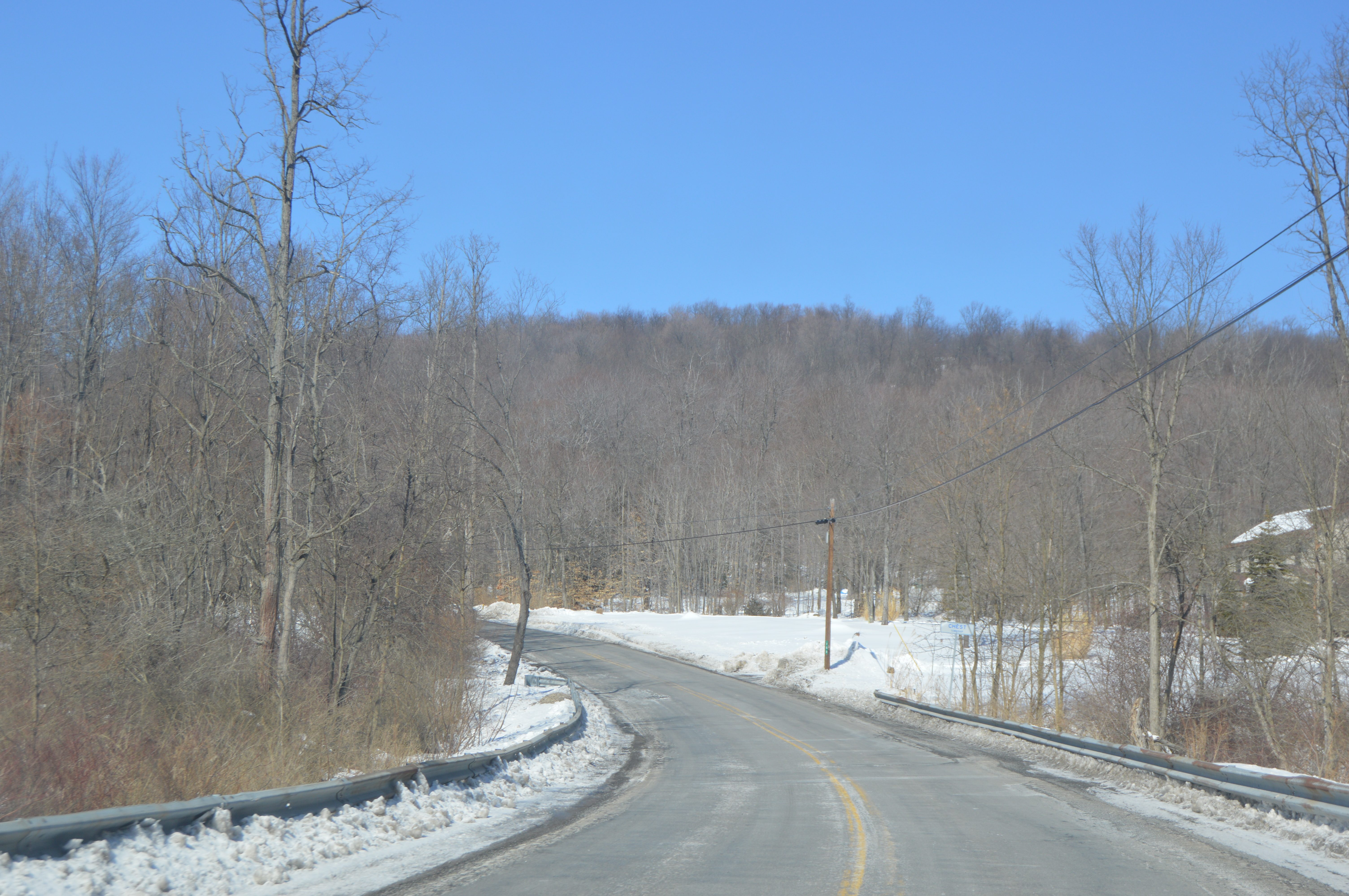 Looking north along St. Lawrence Road immediately outside of Patton in Chest Township, Cambria County, Pennsylvania, United States.